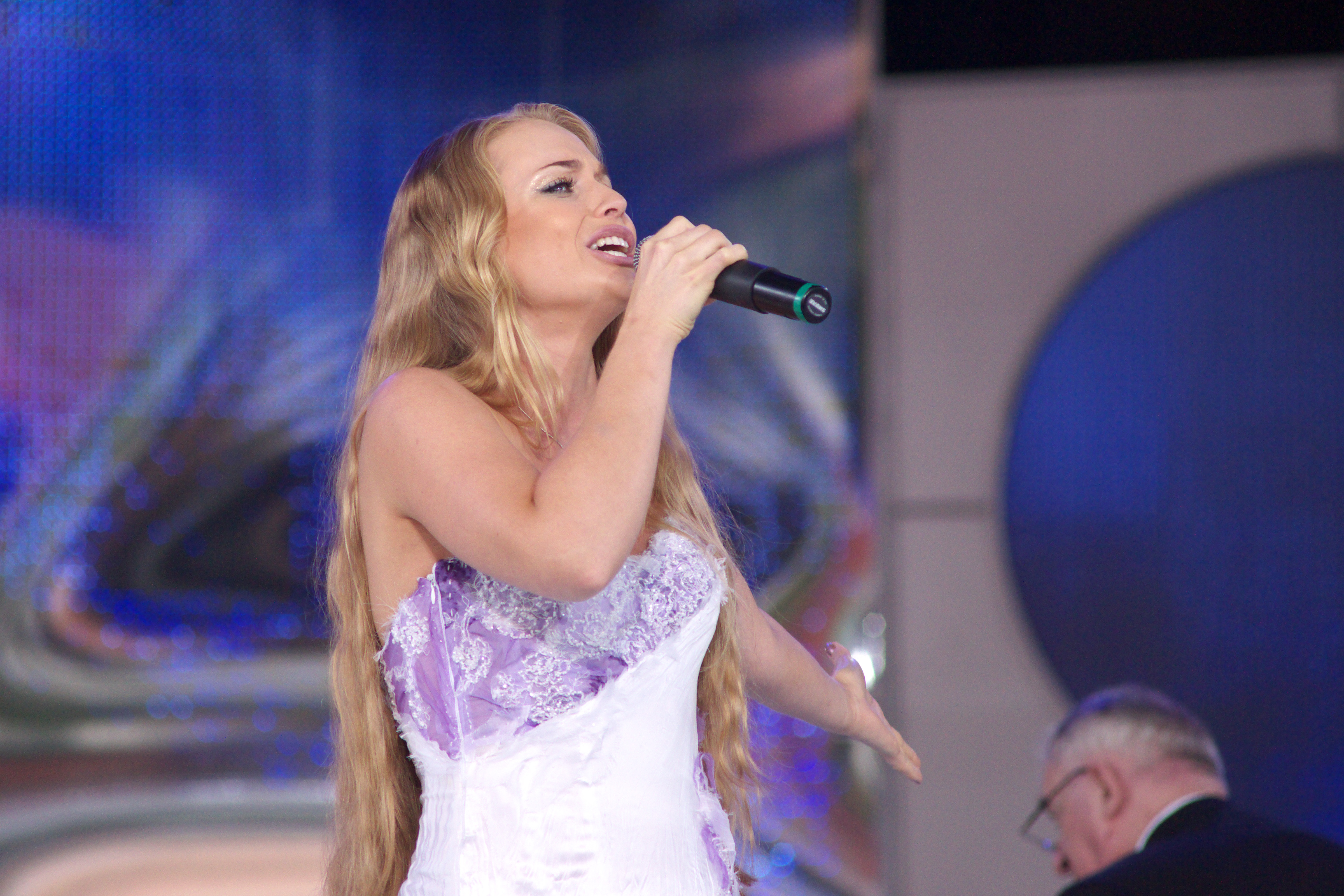 Alyona Lanskaya - winner of XX International Pop Song Performers Contest “VITEBSK-2011” on XX International Festival of Arts “Slavianski Bazaar in Vitebsk”